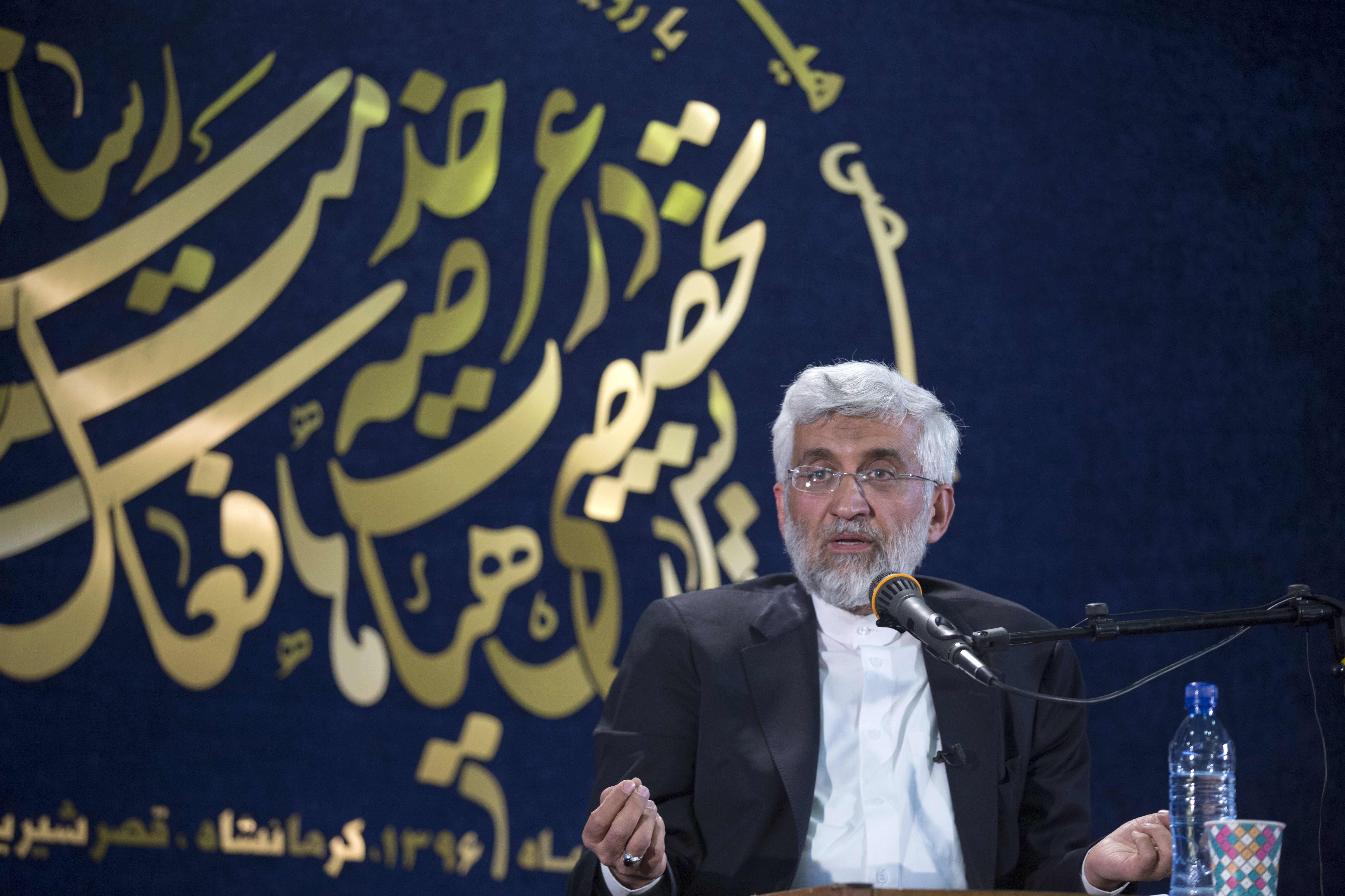 Saeed Jalili is an Iranian conservative politician and diplomat who was secretary of the Supreme National Security Council from 2007 to 2013. He was also Iran's nuclear negotiator. photojournalist: Mostafa Meraji (Wikipedia CC4)